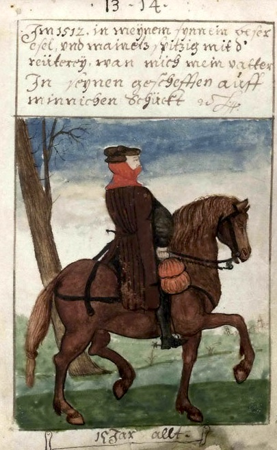 Matthäus Schwarz at the age of 15